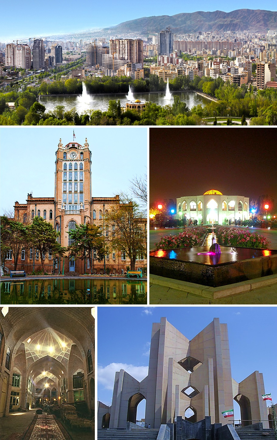 Tabriz View from El-Gölü Bazaar of Tabriz Saat Tower Mausoleum of Poets El-Gölü